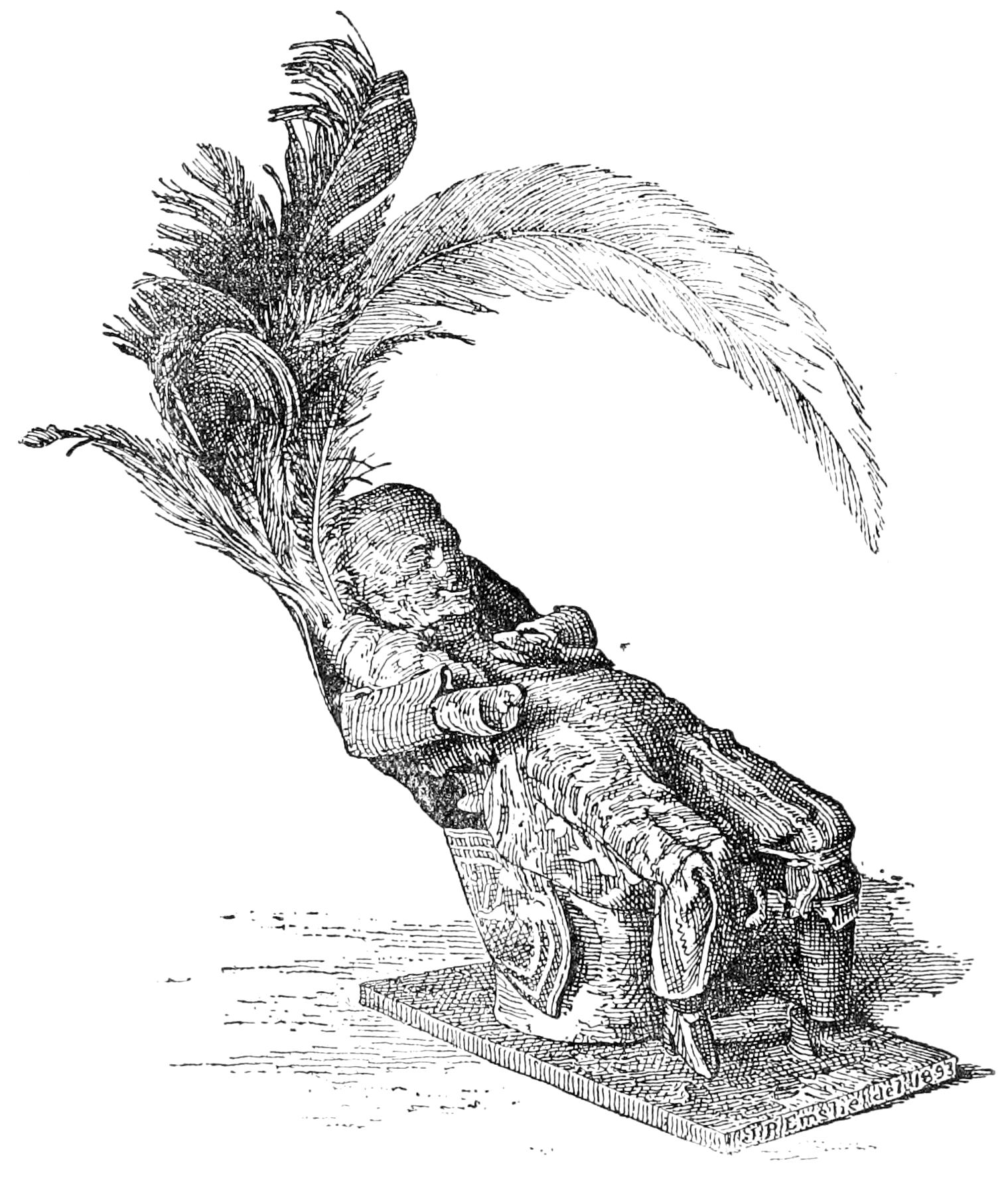 Illustration from a collected volume of journals, it illustrates an article on "Obeah Worship in East and West Indies."